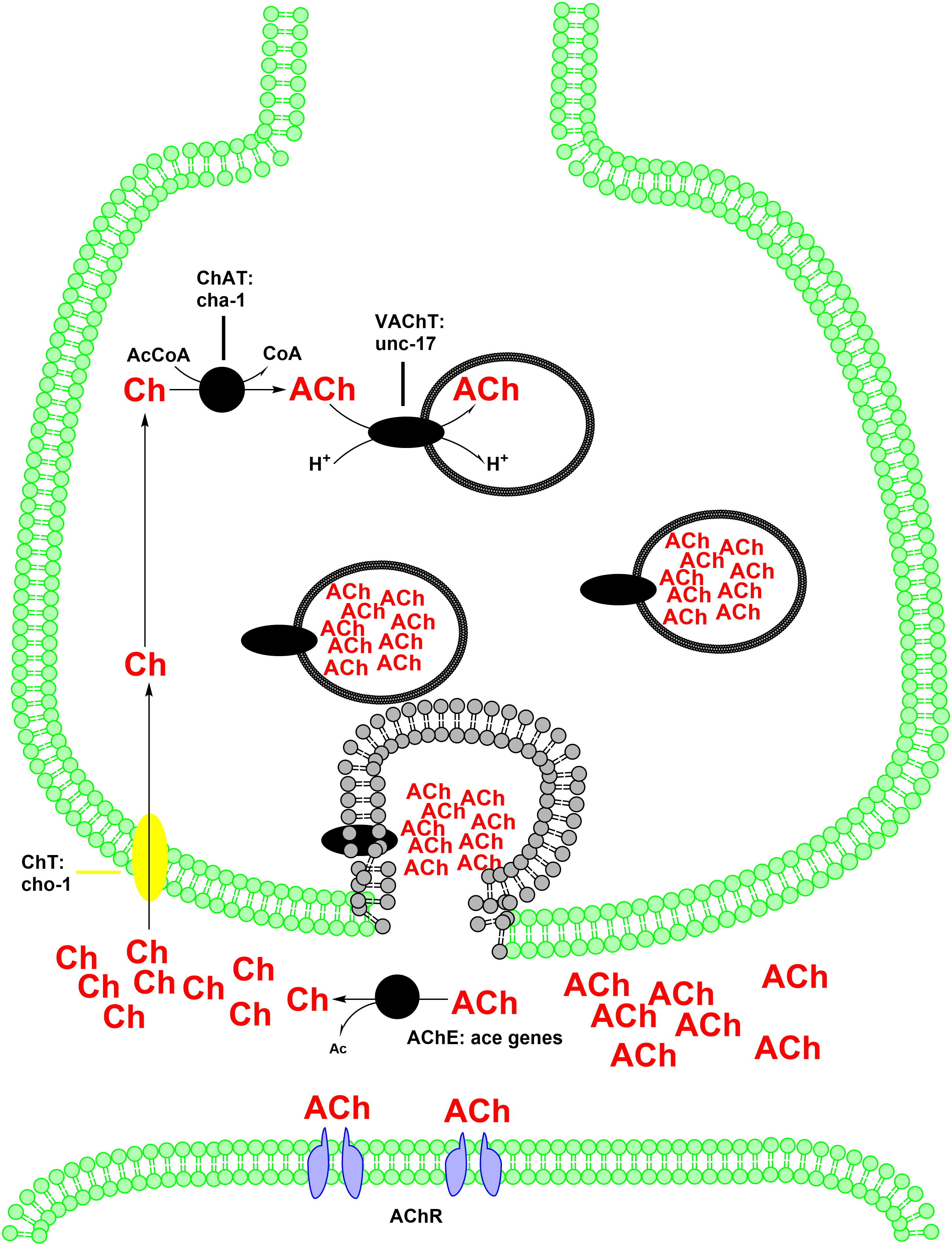 Cholinergic enzymes and transporters